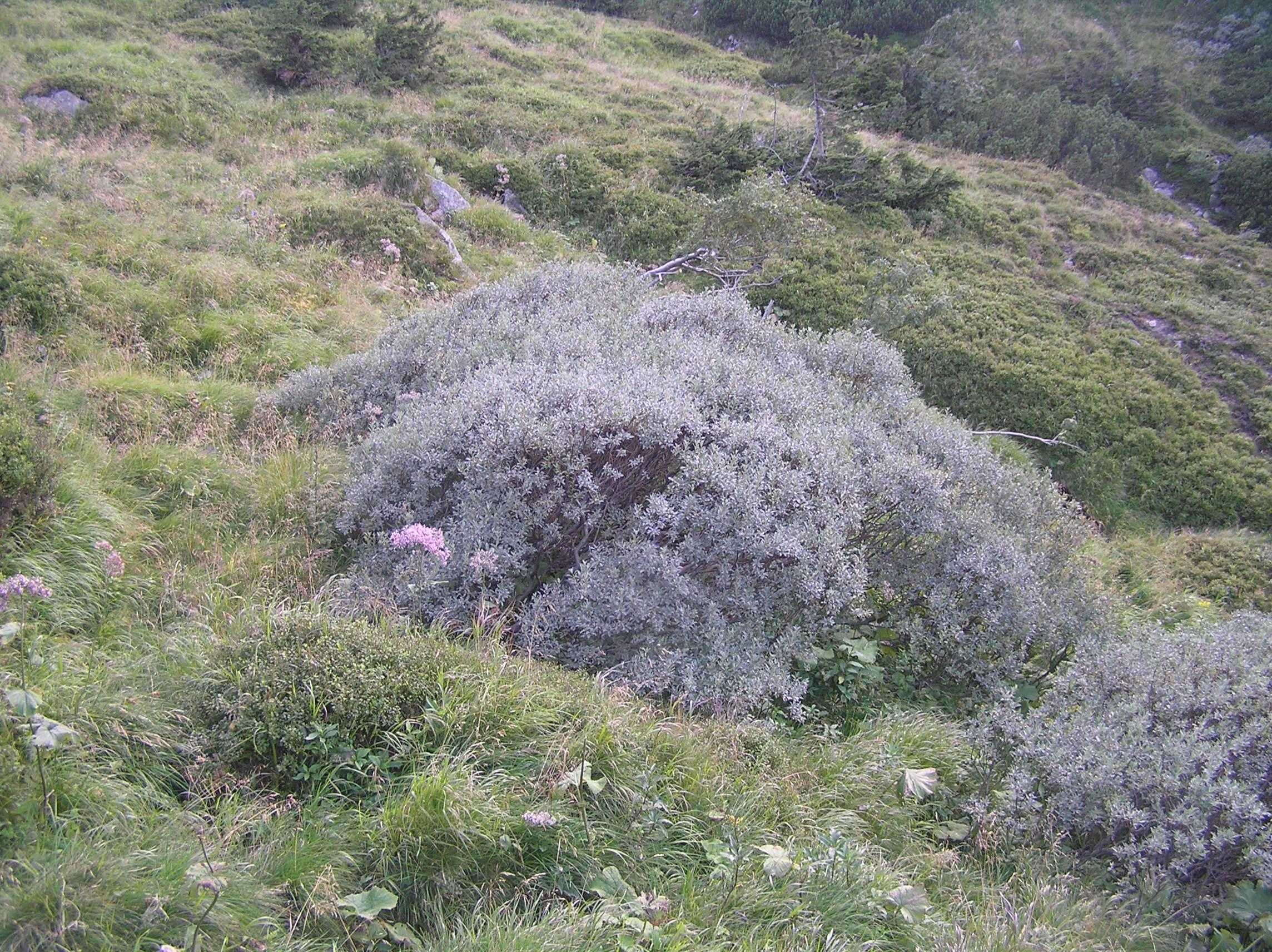 Salix lapponum, near the lake Mały Staw, Karkonosze, Poland